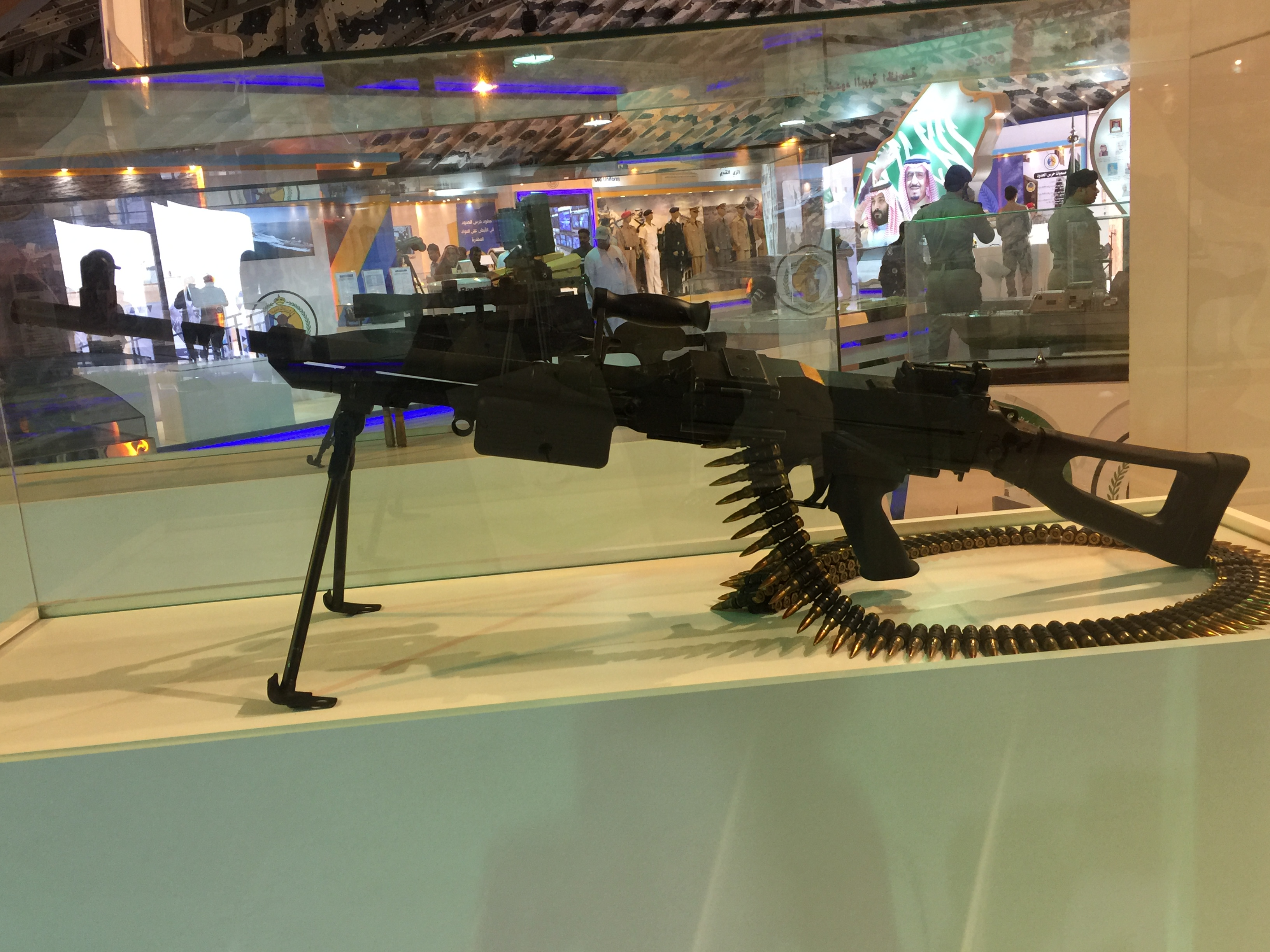 Vektor SS77 machine gun.